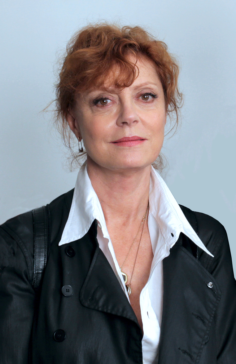 Isolation of actress from a previous picture in commons